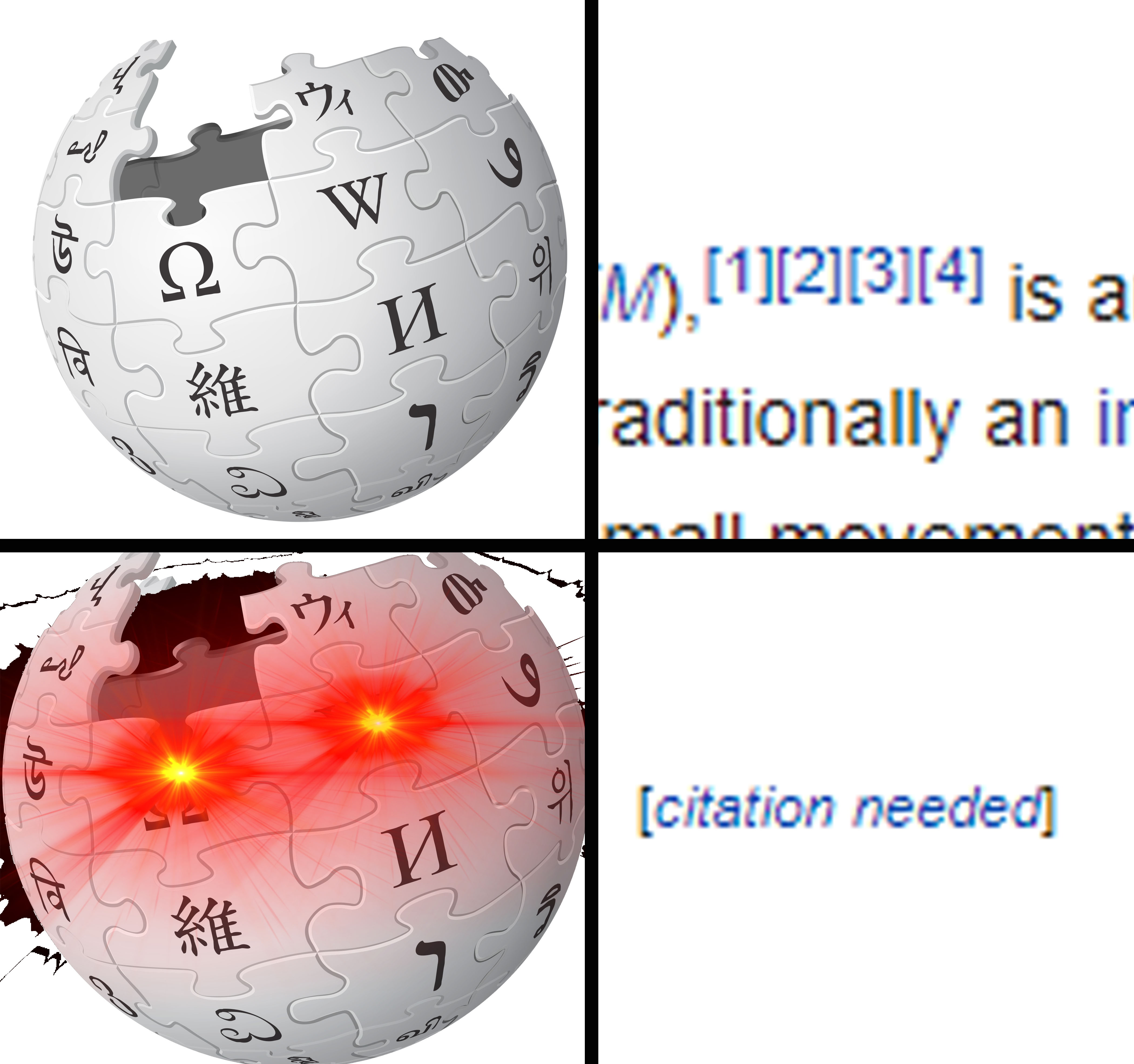 An example of a "dank" internet meme, on the subject of Wikipedia and their treatment of sources. Features common "dank" themes such as humour through absurdity, gradually increasing verbosity, intentionally poor image compression, and an overall sense of disorder and nonsense. I made this so that Internet meme could showcase a more modern example of a meme.